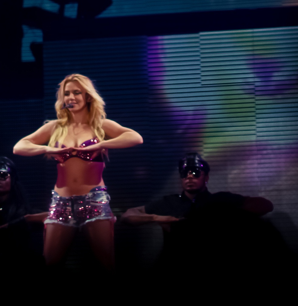 Britney Spears performing "Womanizer" at 2011's Femme Fatale Tour live in Ukraine.